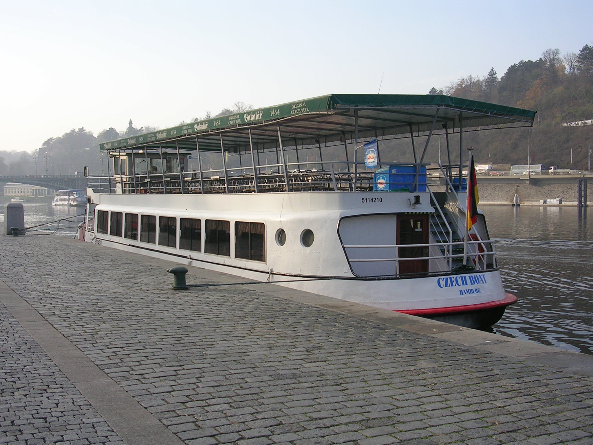 Prague, Czech Boat ship.